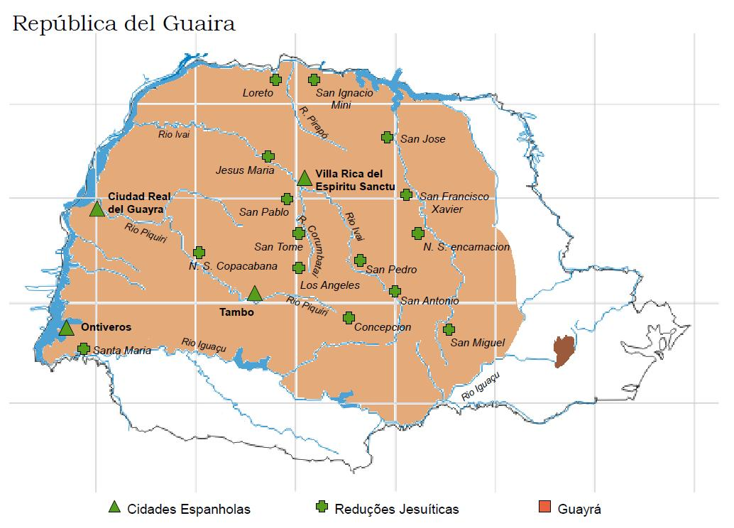 Spanish Settelments on Guayra Province